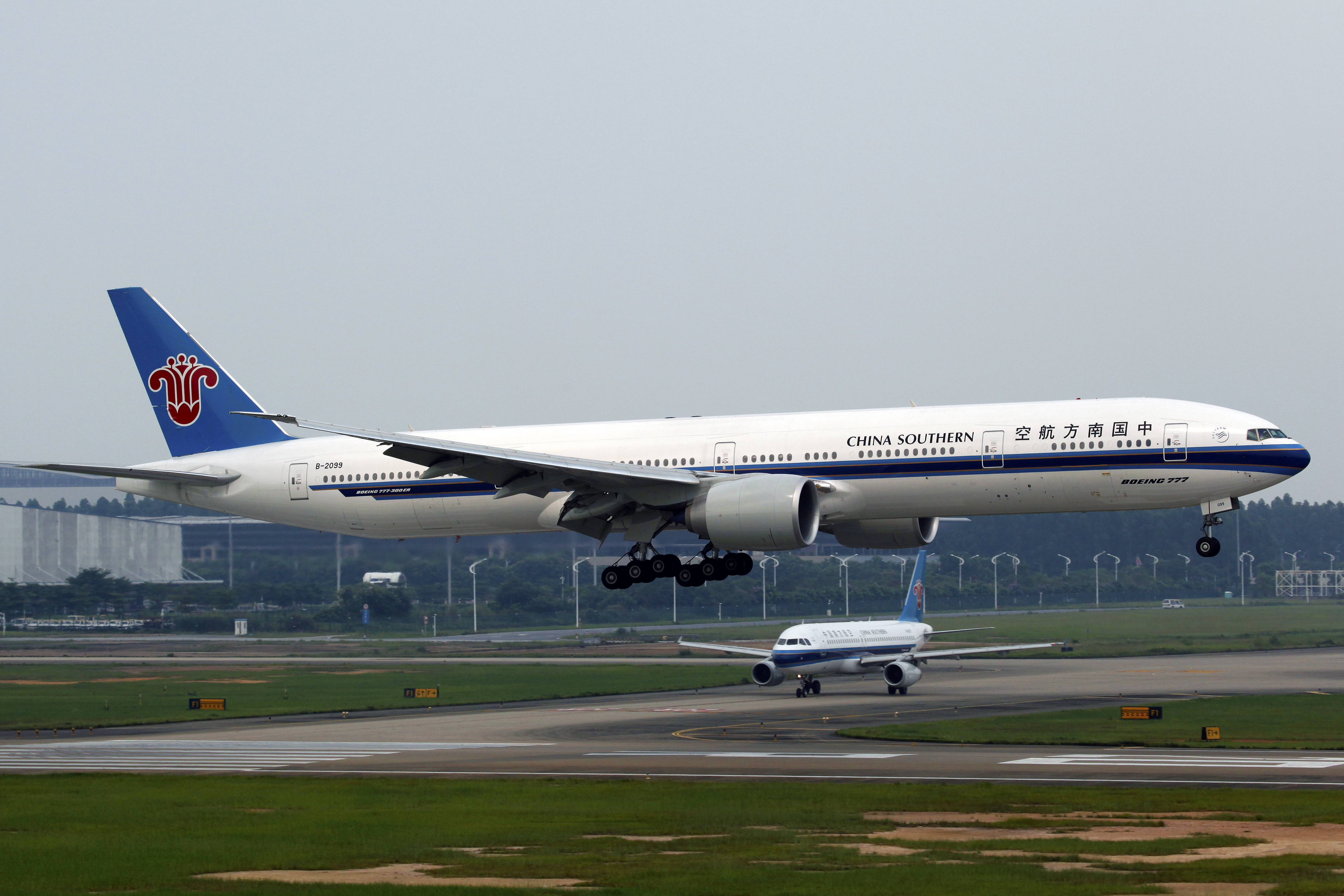 B-2099 | China Southern Airlines | Boeing 777-31B(ER) | Guangzhou Baiyun International Airport [CAN]